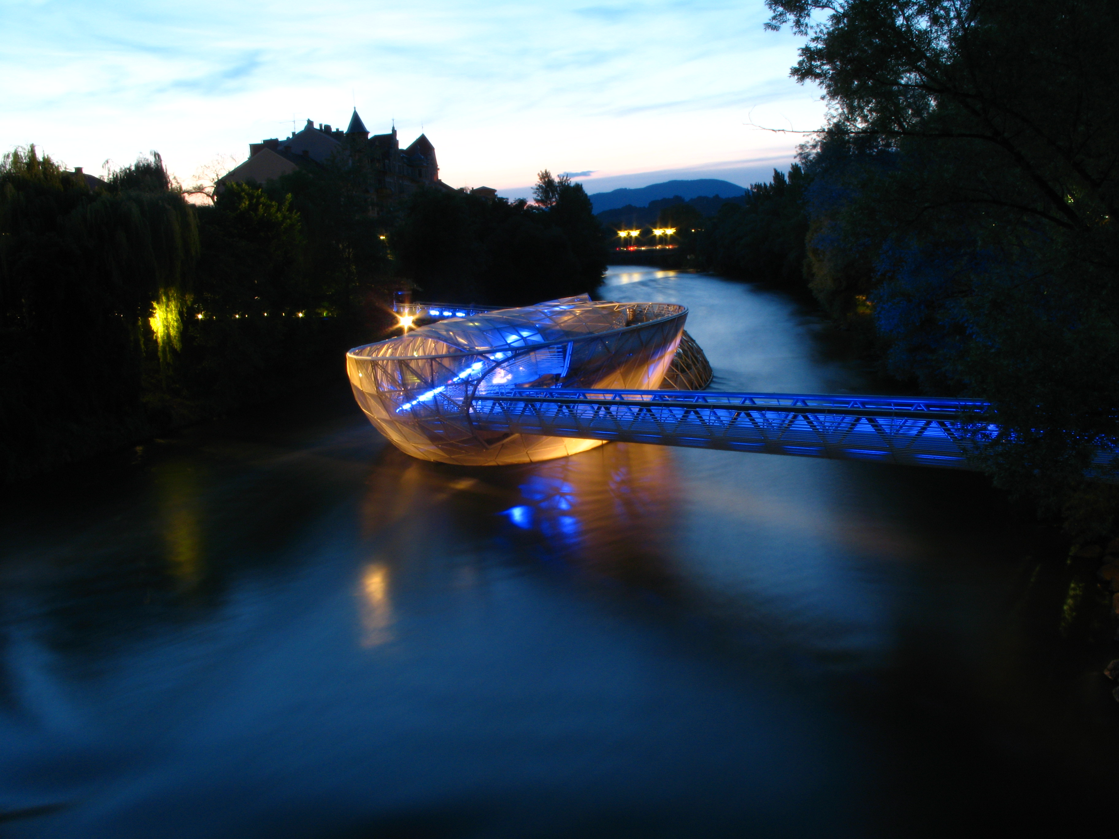 Murinsel, Graz, Austria